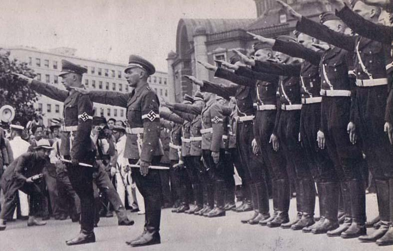 Hitlerjugend Japan visit August 1938. The white dress Hitlerjugend belts were specially commissioned by the Reichsjugendführung Stab (Reich Youth Directorate staff) for this event, to contrast with the uniform and make them look smarter; they were not the normal official dress issue. A Japanese youth delegation also visited Germany in 1937.